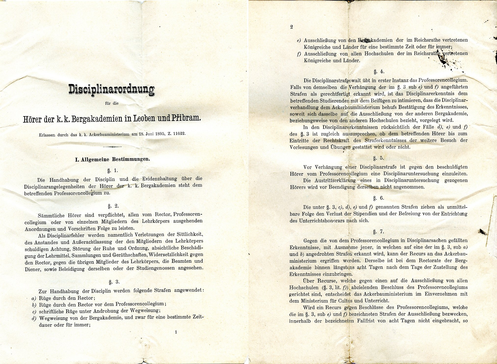 both pages of disciplin-rules in K. und K. Bergakademie zu Leoben; enclosure for student's book of registration of courses